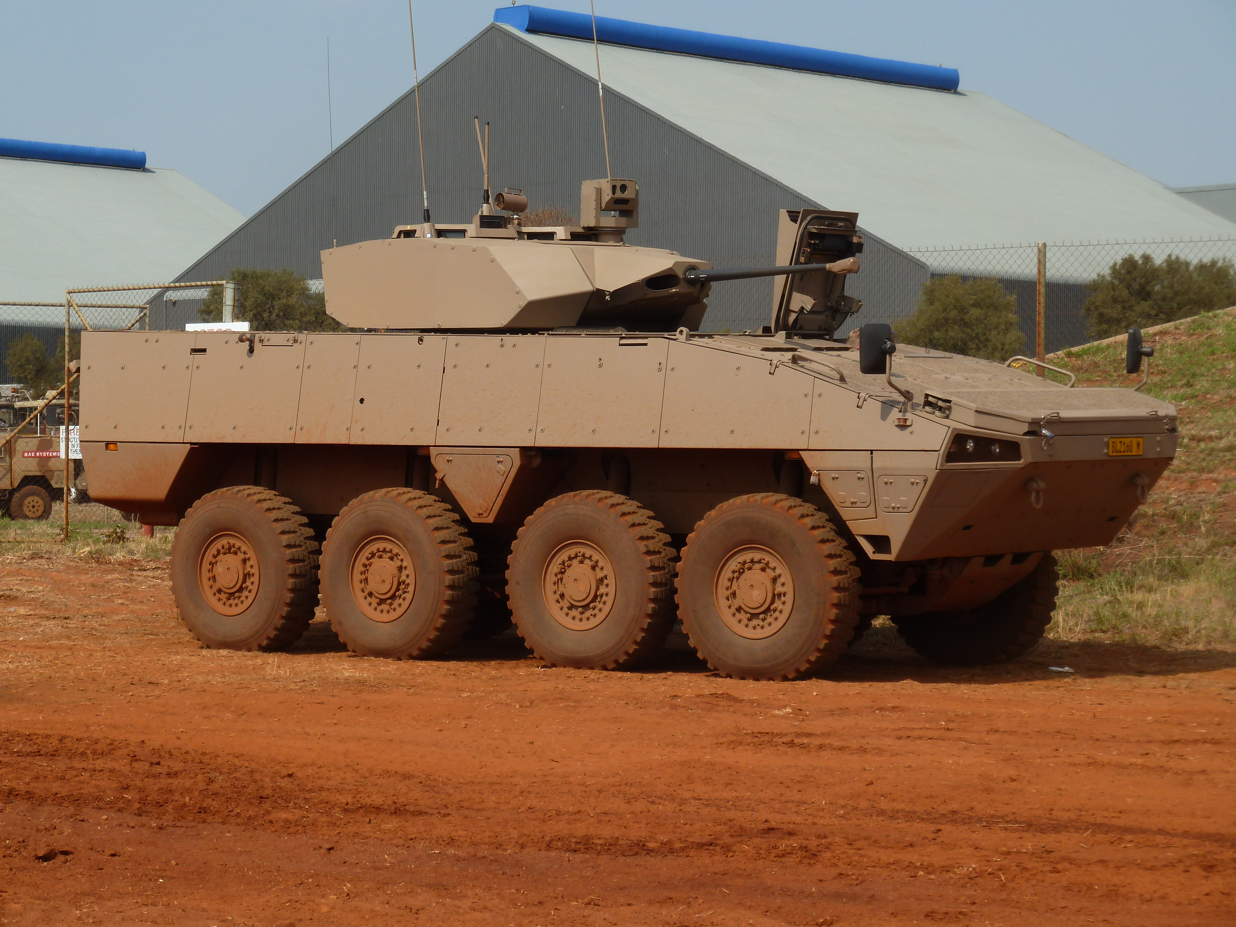 Badger ICV at Waterkloof AFB, queuing to depart on short demonstration circuit ↑ Denel PMP ready to produce 30 x 173 mm ammunition for Badger ICV